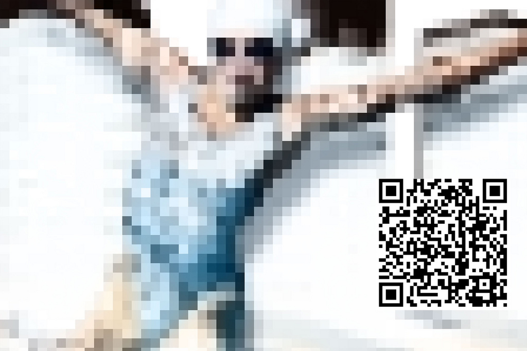 first painting with a link QR code.